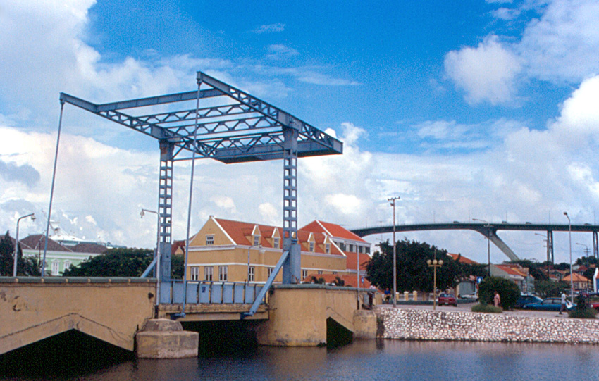 A Dutch-style lift bridge, built with modern materials, connecting Punda (the center of Willemstad) with Scharloo. Once again, Queen Juliana Bridge dominates the skyline.